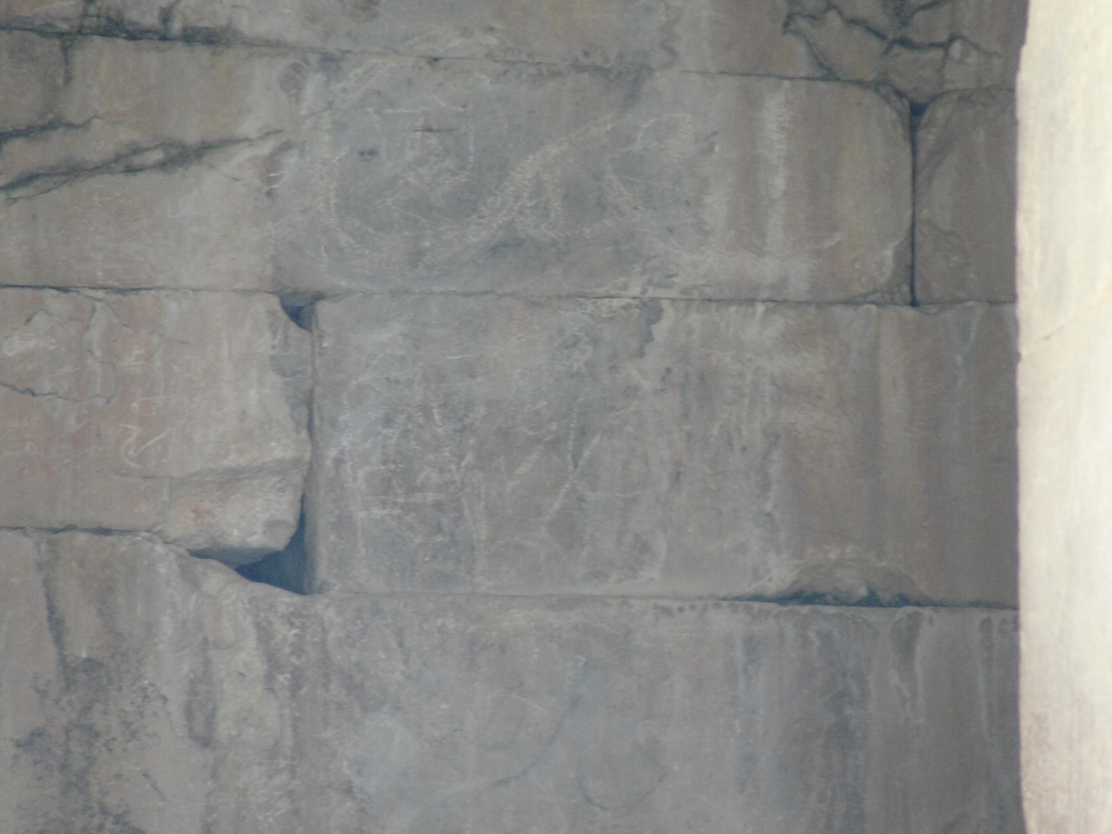 Inside the chamber of Ka'ba-ye Zartosht in Naqsh-e-Rostam, Iran